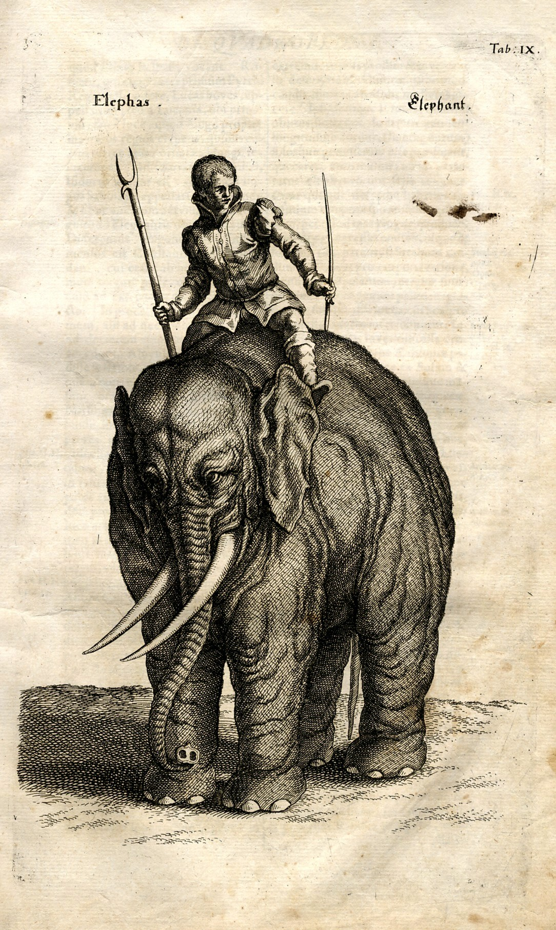 Jan Jonston: "Historiae Naturalis De Quadrupedibus", Kupferstich "Elephant".